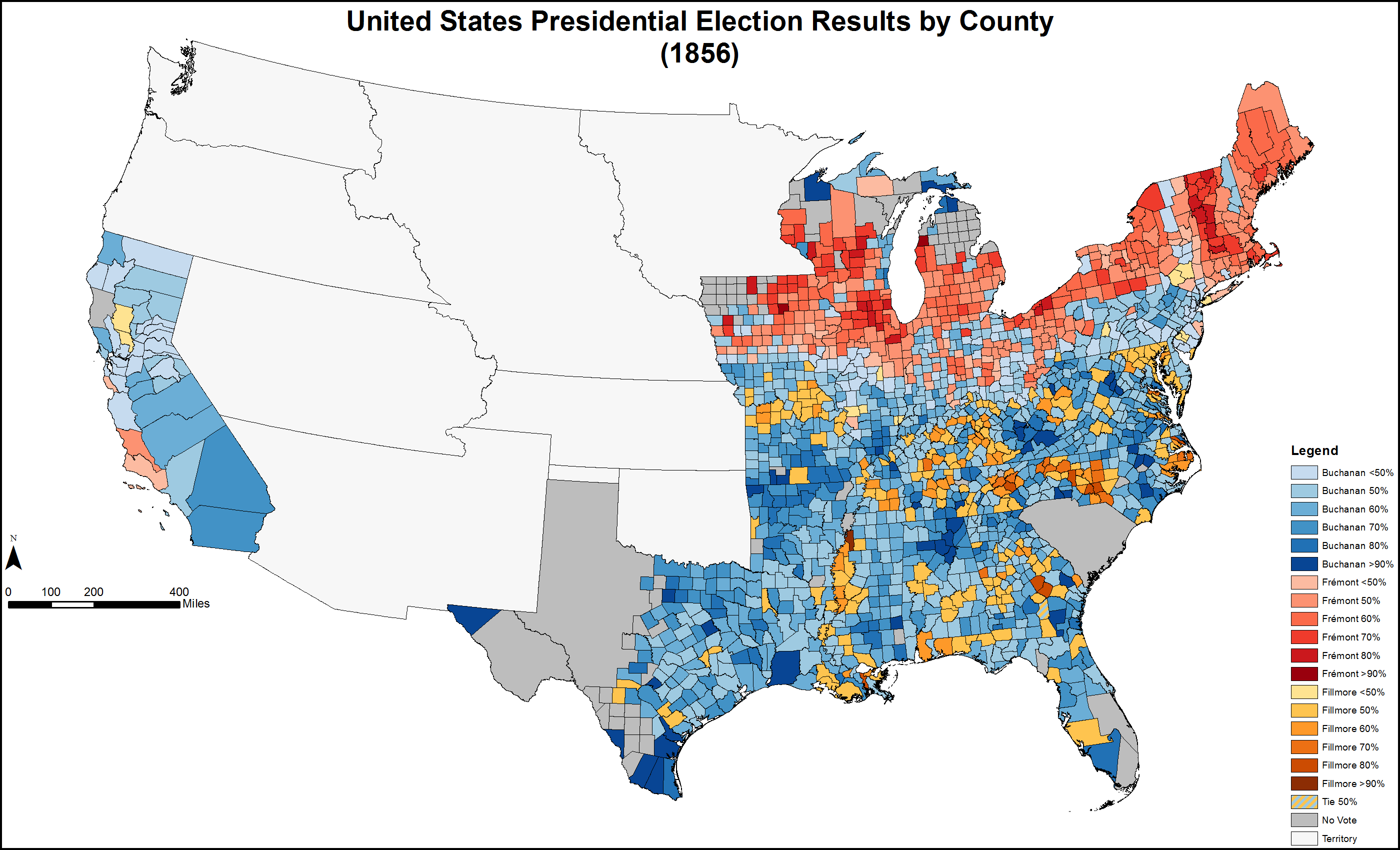 Presidential election results by county (1856). Colors based on Colorbrewer 2.0.